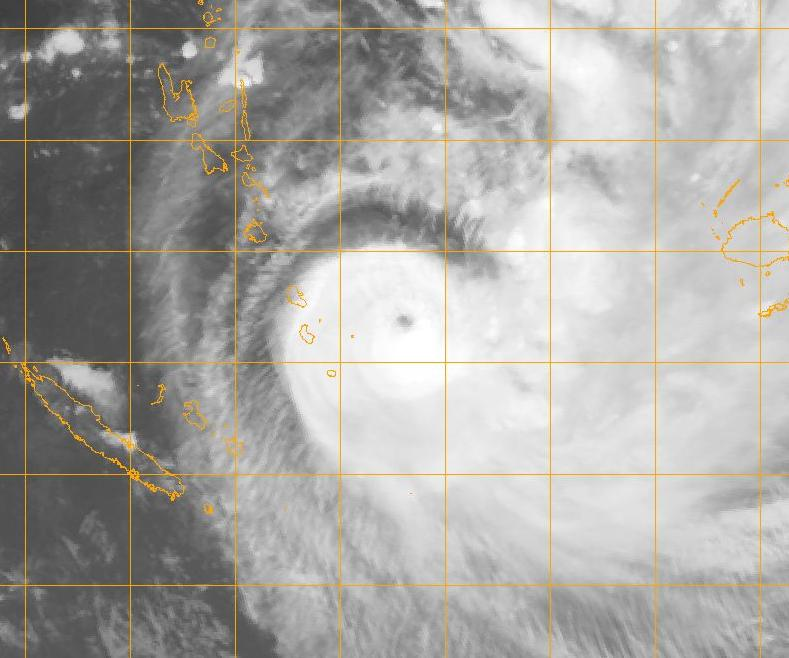 Satellite image of Cyclone Gene near peak strength